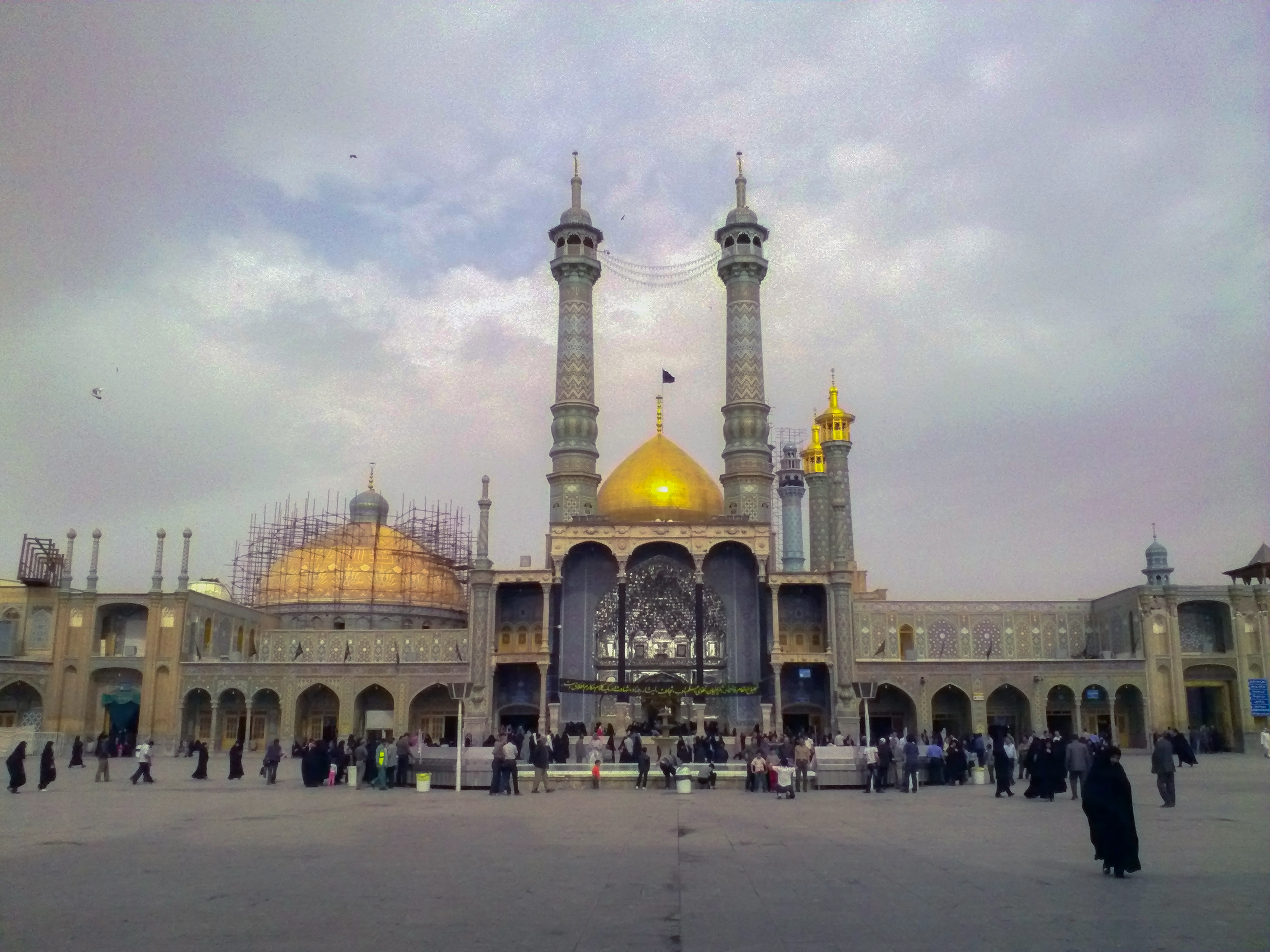 The shrine of Fatema Mæ'sume (sister of Imām ʻAlī ibn-Mūsā Riđā) is located in Qom which is considered by Shia Muslims to be the second most sacred city in Iran after Mashhad. Fatima Masumeh was the sister of the eighth Imam 'Ali al-Rida and the daughter of the seventh Imam Musa al-Kadhim (Tabari 60). In Shia Islam, women are often revered as saints if they are close relatives to one of the Twelver Imams. Fatima Masumeh is therefore honored as a saint, and her shrine in Qom is considered one of the most significant Shi'i shrines in Iran. Every year, thousands of Shi'i Muslims travel to Qom to honor Fatima Masumeh and ask her for blessings. For more information on the history of Fatima Masumeh, see Fatima bint Musa.